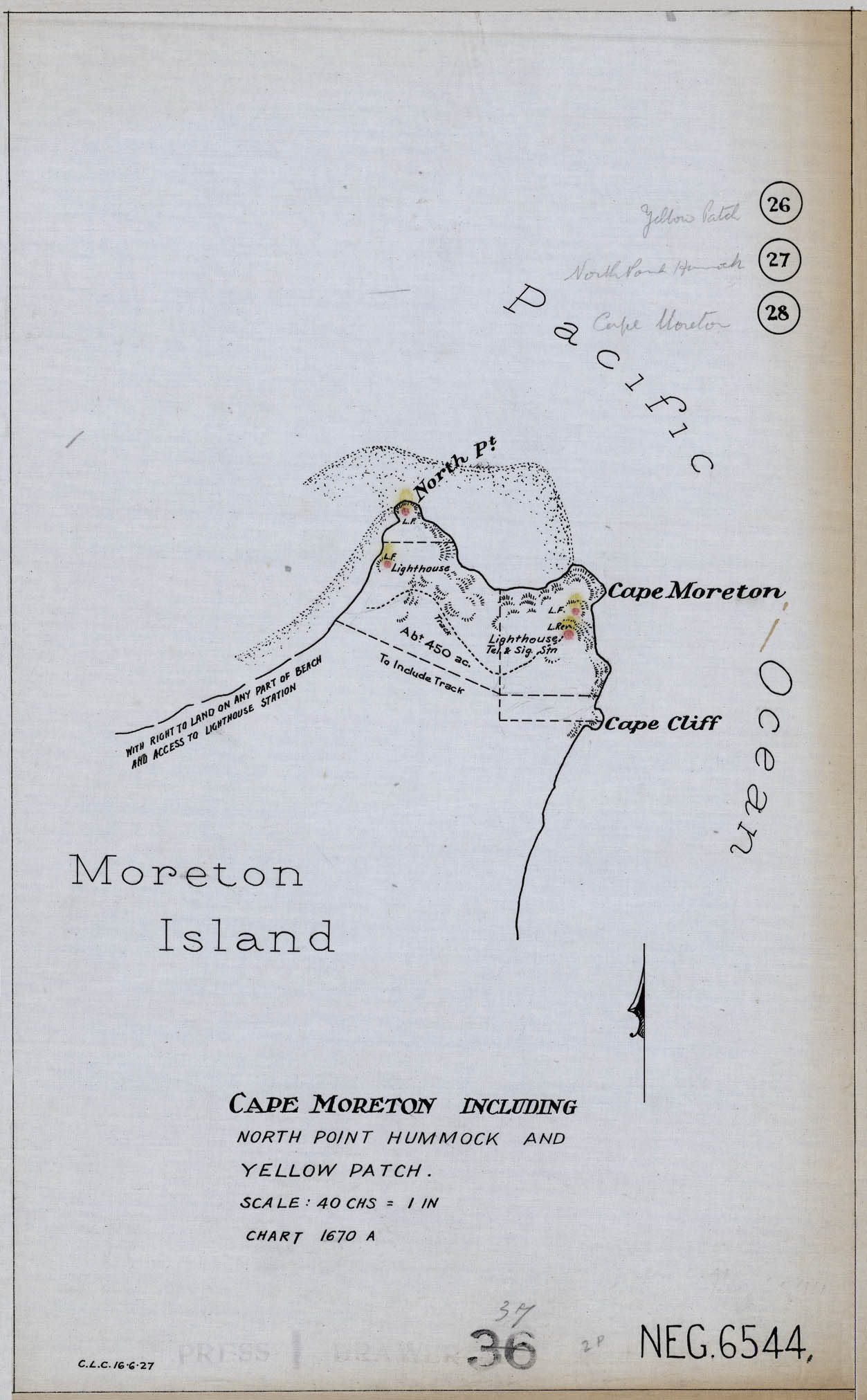 Cape Moreton - Plan Including North Point Hummock and Yellow Patch, 1927